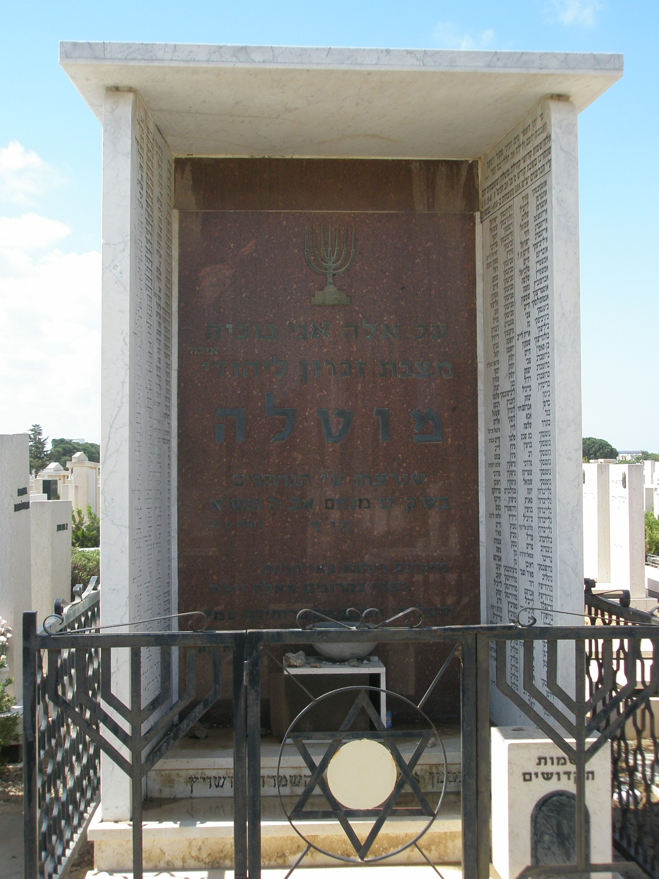 Motal memorial at Holon Cemetery